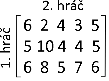 simpler matrix without dominated strategies